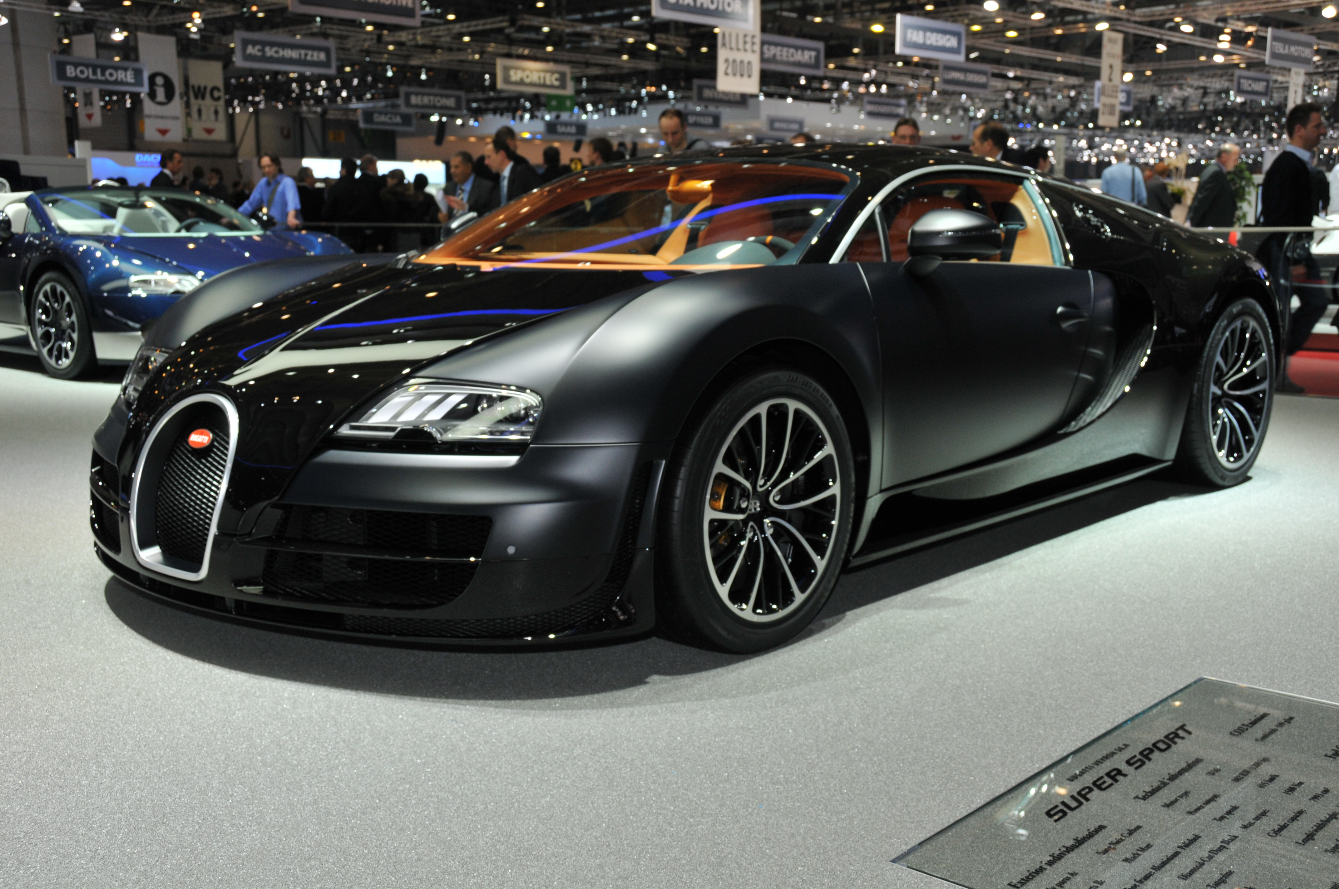 The Bugatti Veyron Super Sport at the Geneva Motor Show 2011. More pictures and info